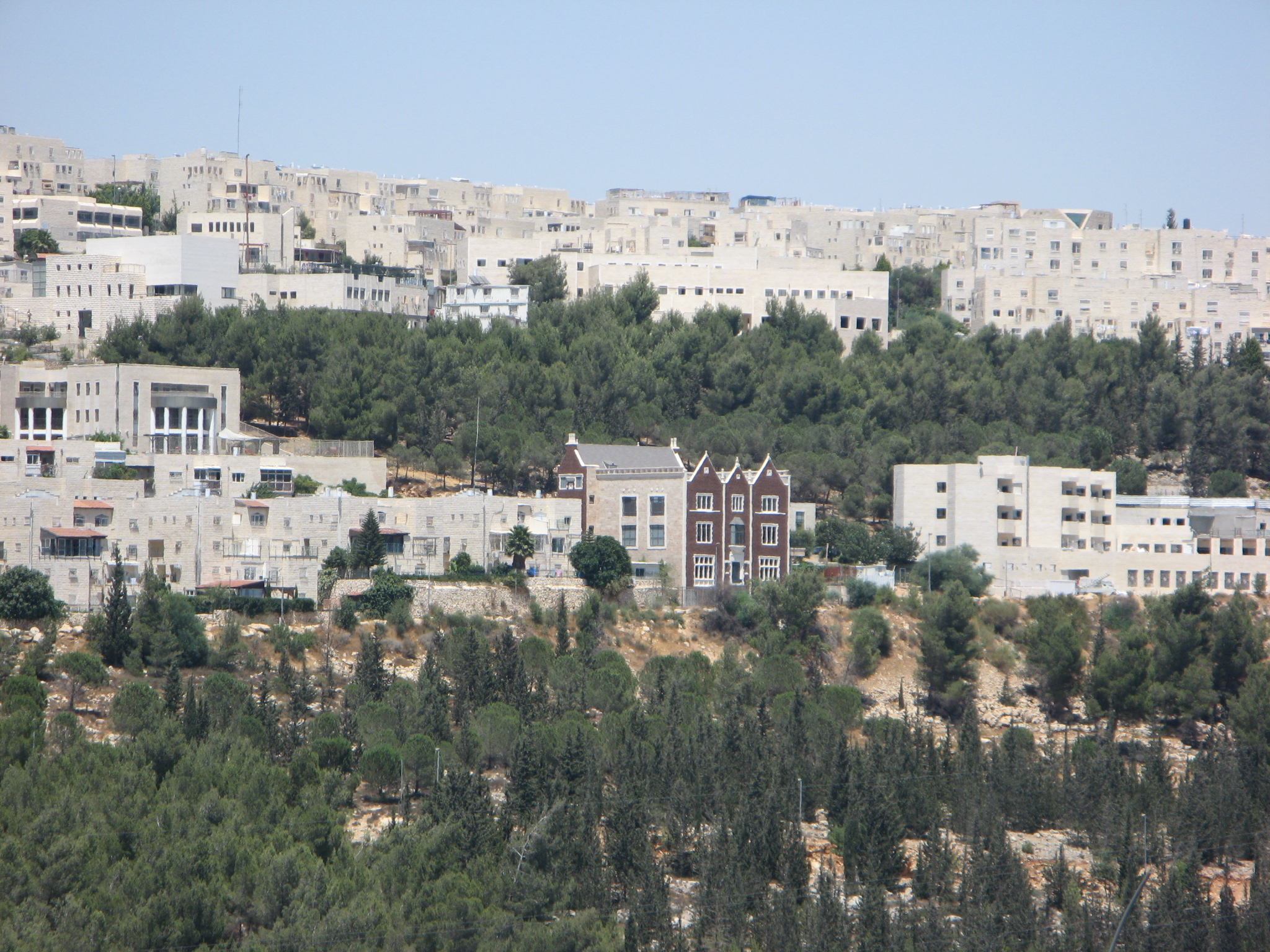 770 imitation in Ramat Shlomo